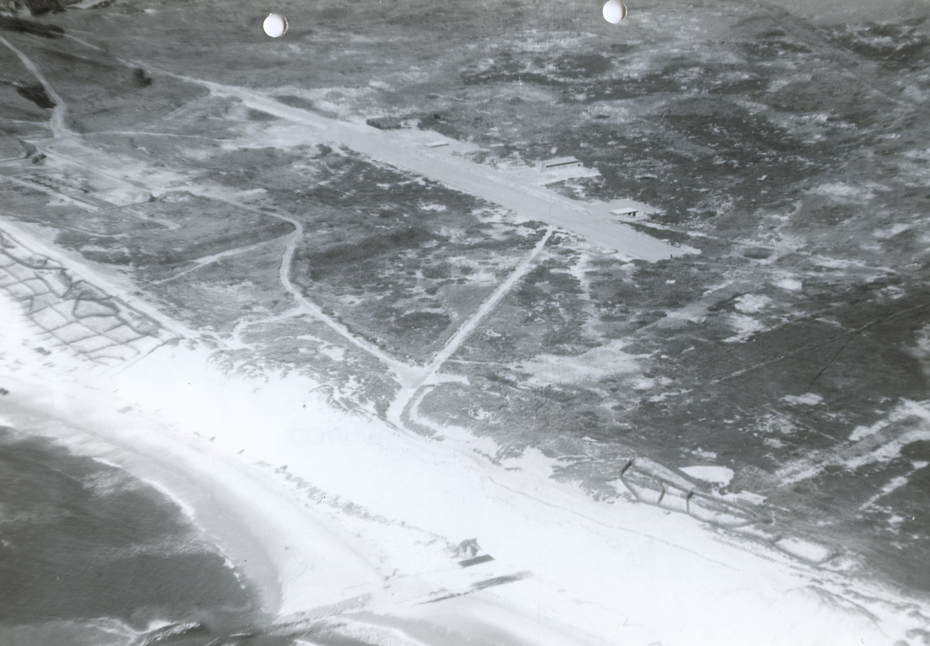 Aerial photo of the dunes of Huisduinen south of the city of Den Helder, The Netherlands. Shooting range of the anti aircraft artillery. View in North-East direction.